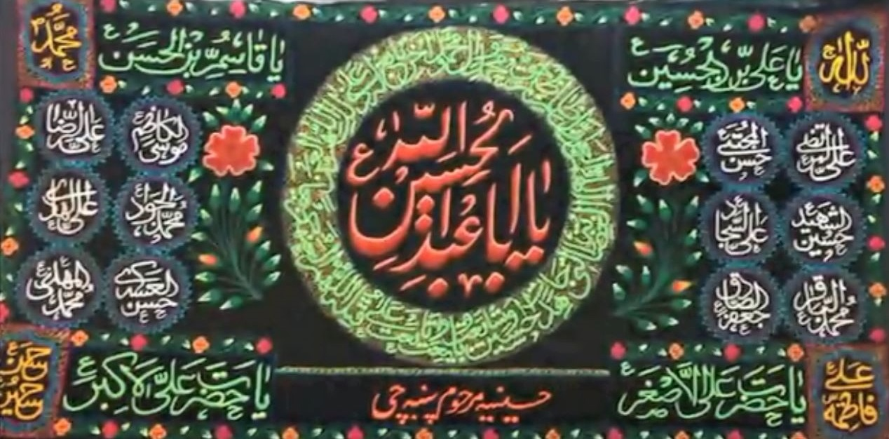 A symbolic texture with name of Imam Hussein in the middle and the name of other Shia imams around that, and also the name of the Tekyeh (or Heyat) where the flag belongs to.